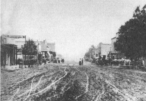 Looking east from D Street towards Third Street in downtown San Bernardino, California in 1864.